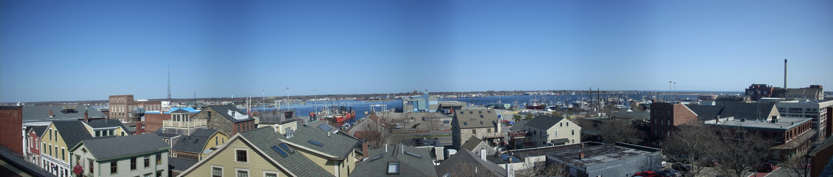 The Port of New Bedford